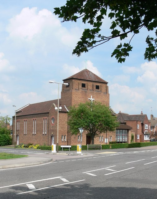 Saint Thomas More, Knighton, Leicester Corner of Knighton Road and Southernhay Road.